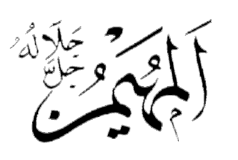 Name of Allah